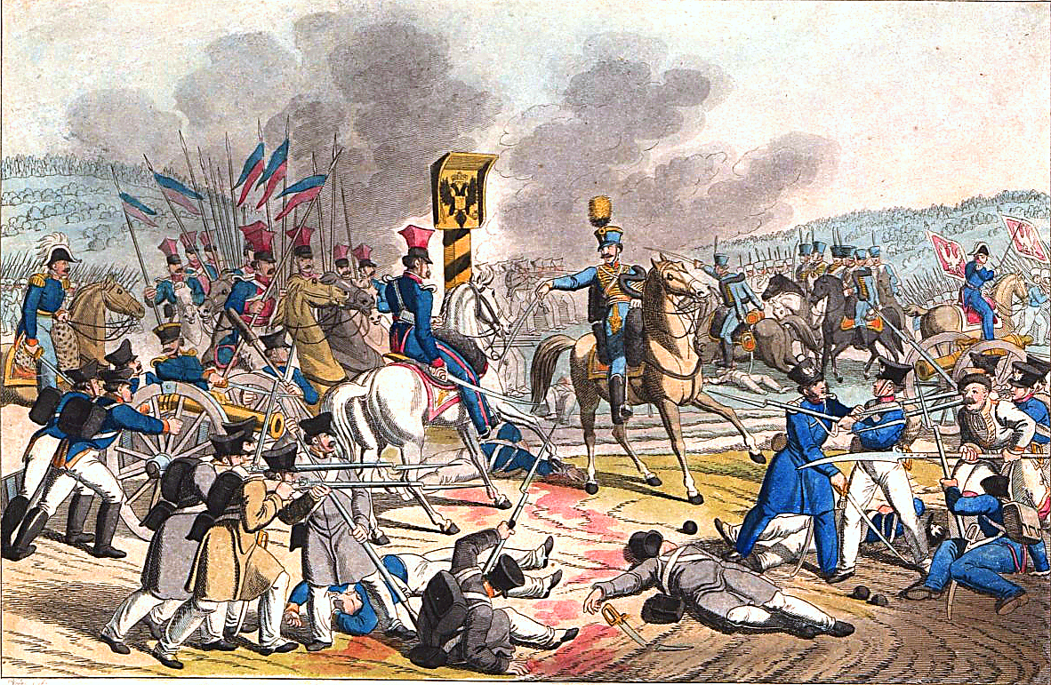 General Józef Dwernicki crossing Austrian border 1831